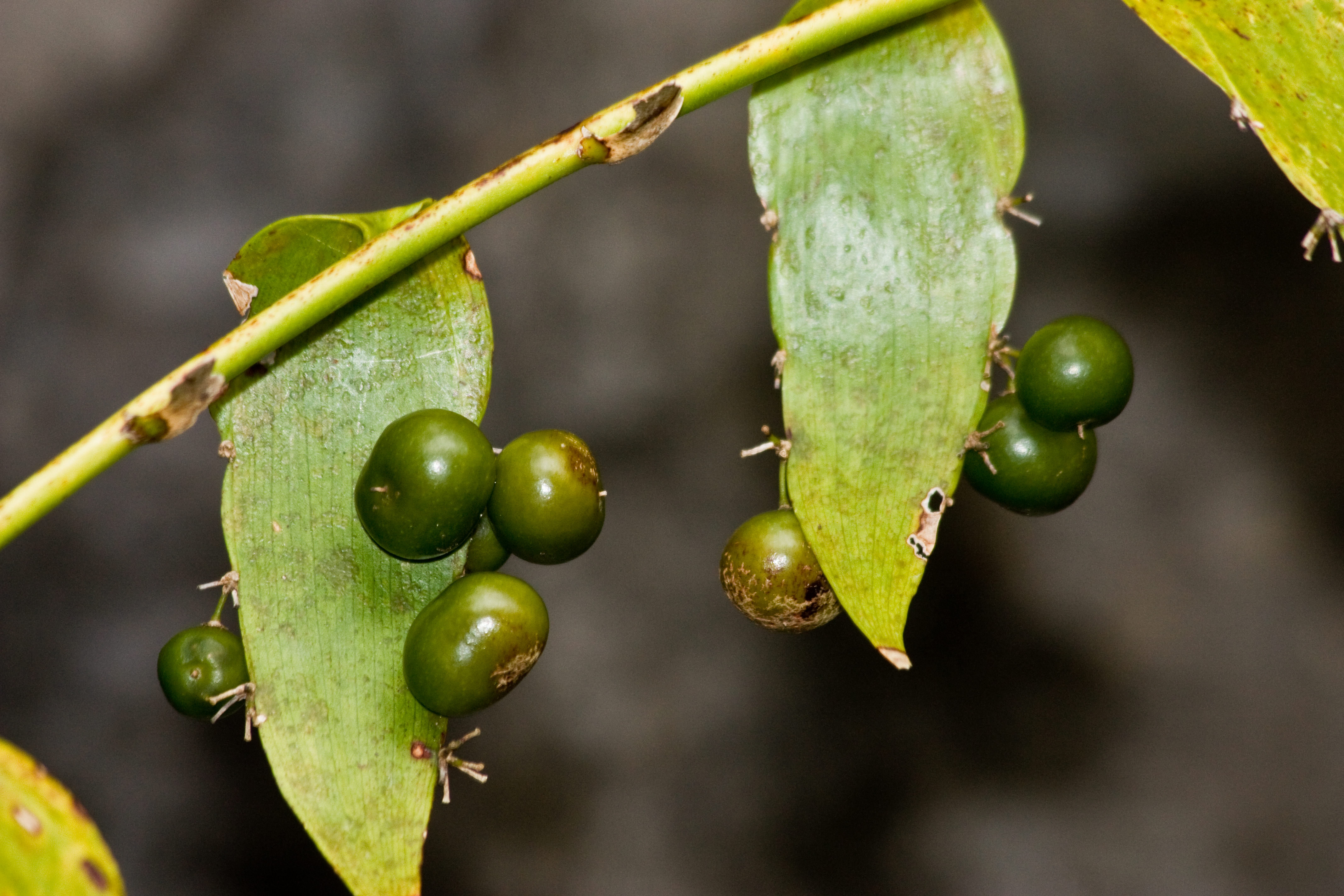 Semele androgyna, Levada da Ribeira da Janela near Lamaceiros, Madeira, Portugal - Phylloclades with unripe fruits